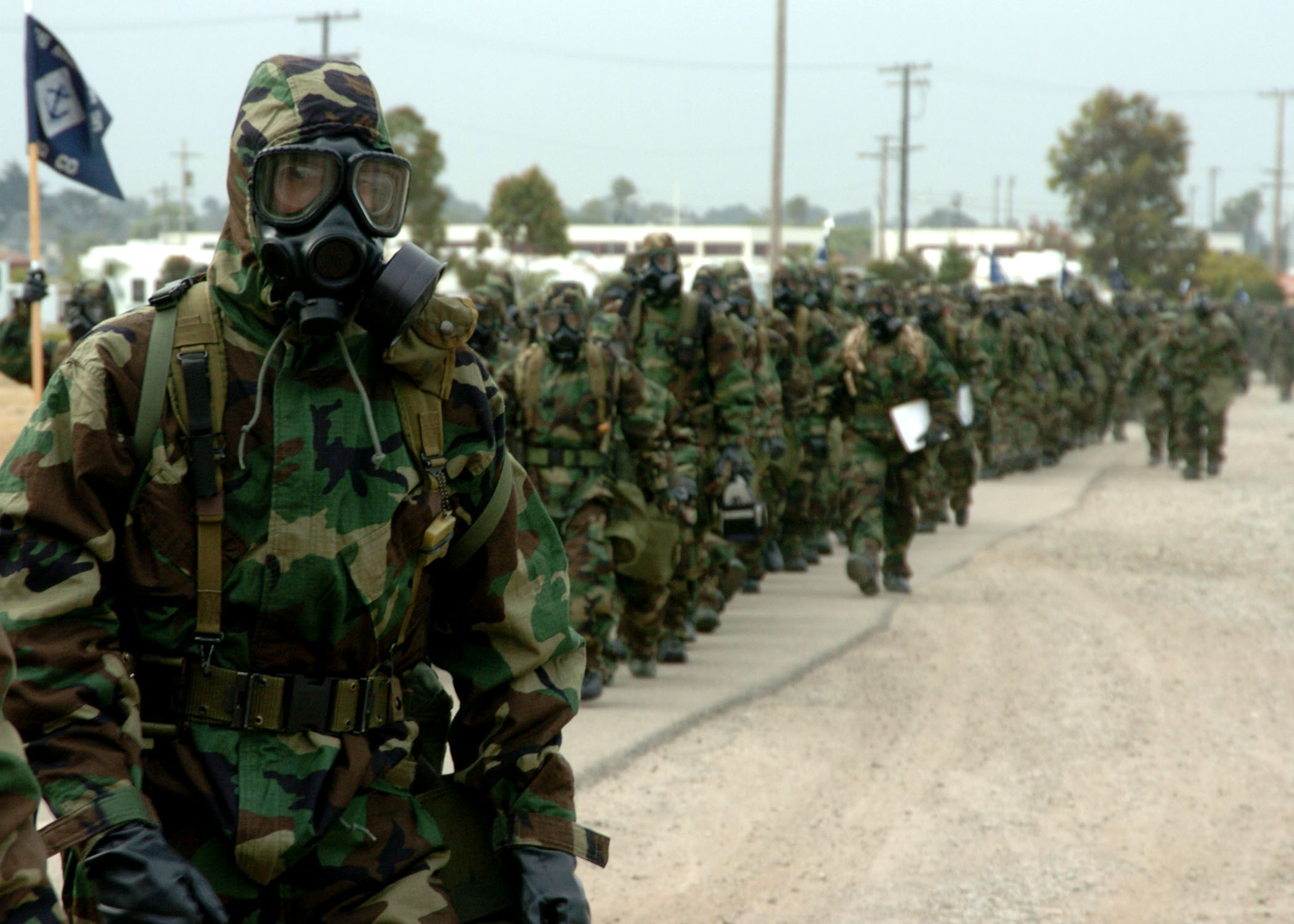 Naval Base Ventura County, Calif. (May 27, 2004) - Naval Mobile Construction Battalion Forty (NMCB-40) Commanding Officer, Cmdr. G.E. "Dwyn" Taylor II marches his battalion in full Mission Oriented Protective Posture (MOPP) equipment. NMCB-40 Seabees are currently conducting training for their upcoming deployment, while providing logistic support for deployed Seabee battalions. U.S. Navy photo by Photographer's Mate Airman John P. Curtis (RELEASED)